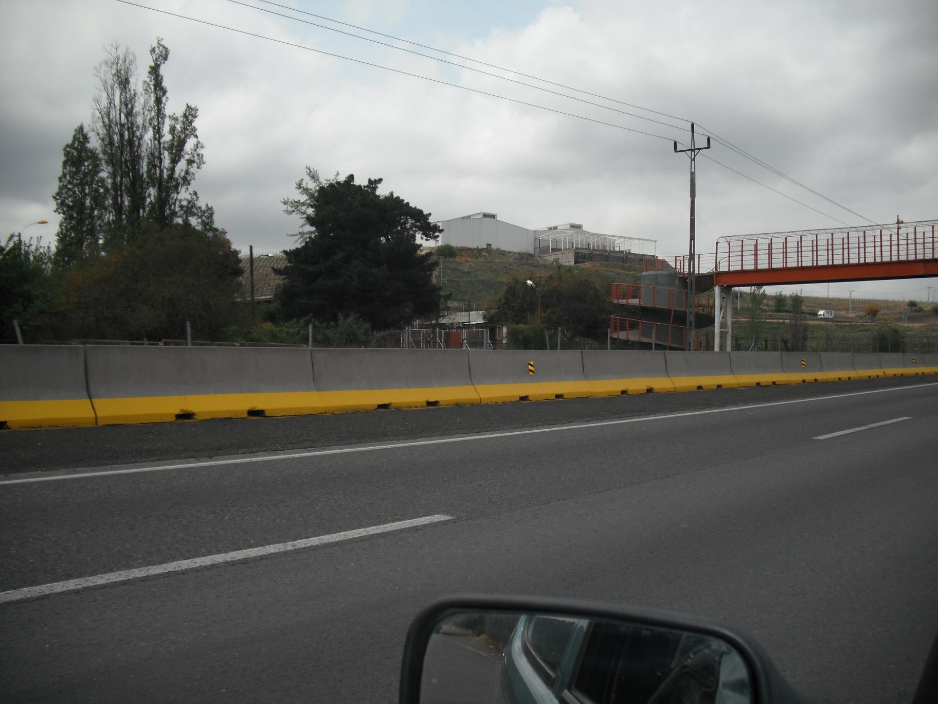 San Francisco de Asis, Cachapoal Province - Angostura